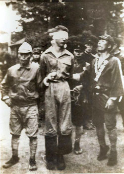 A survivor of B-29 crew (Capt. Gordon Jordan's crew) that crashed in Niigata on July 19, 1945 is led from a village hall after being captured and tortured by local Japanese citizens.